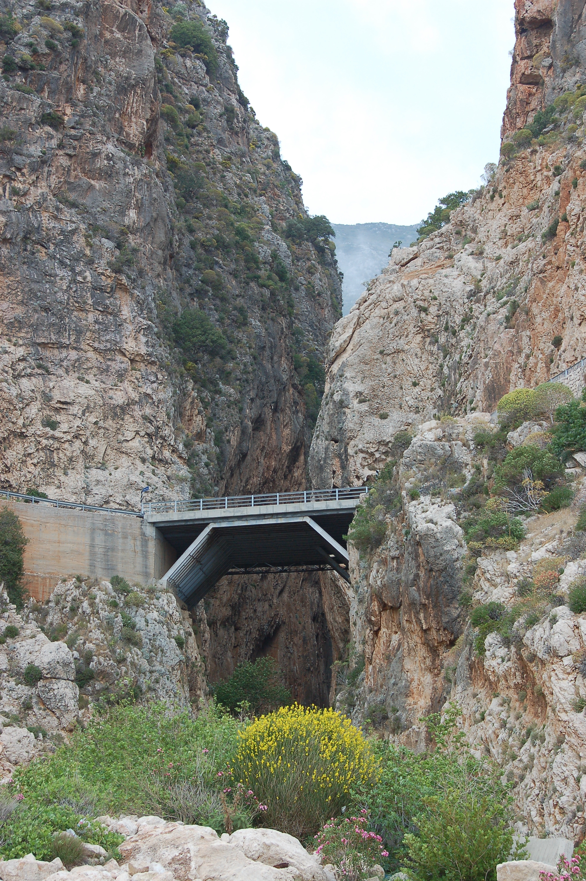 Bridge of the D400 over the Kaputaş Canyon from Kaputaş Beach